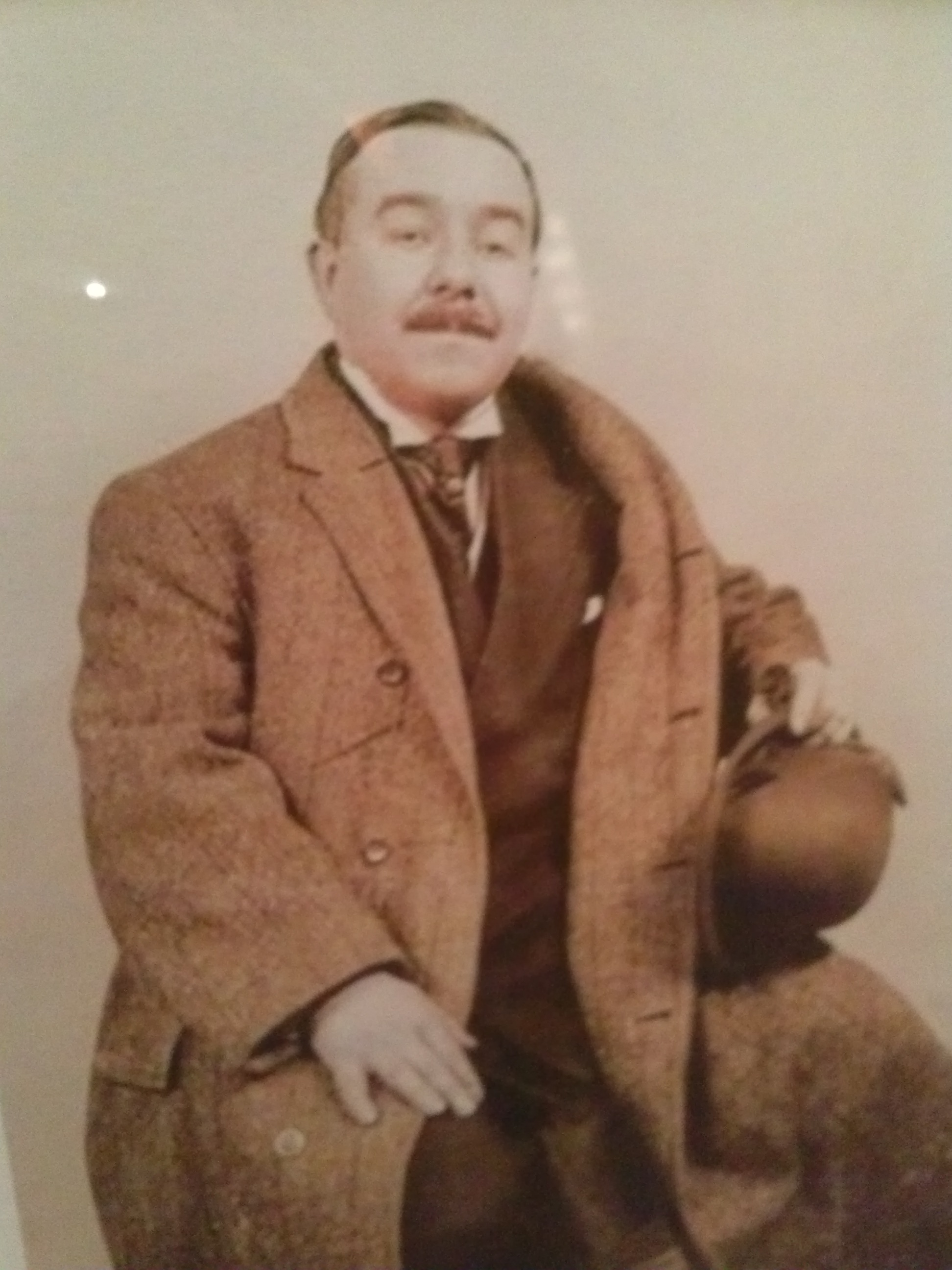 Picture of Charles Murphy